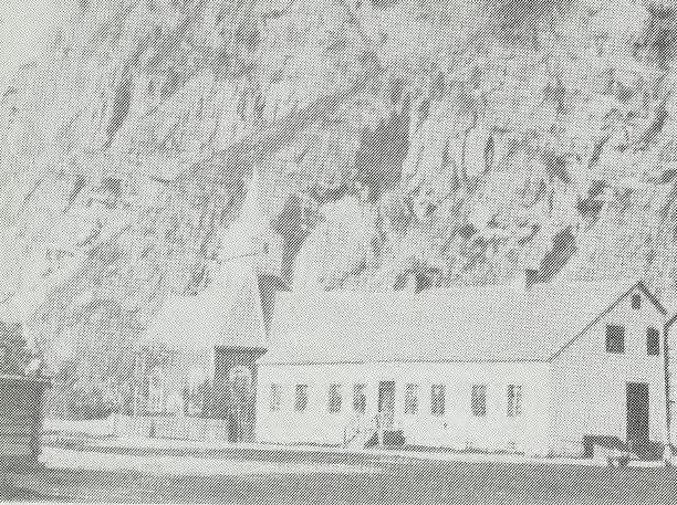 Previous Hov Church in Sunndal, built in 1864, damaged by wind in 1885. White building in front is the vicar's residence.